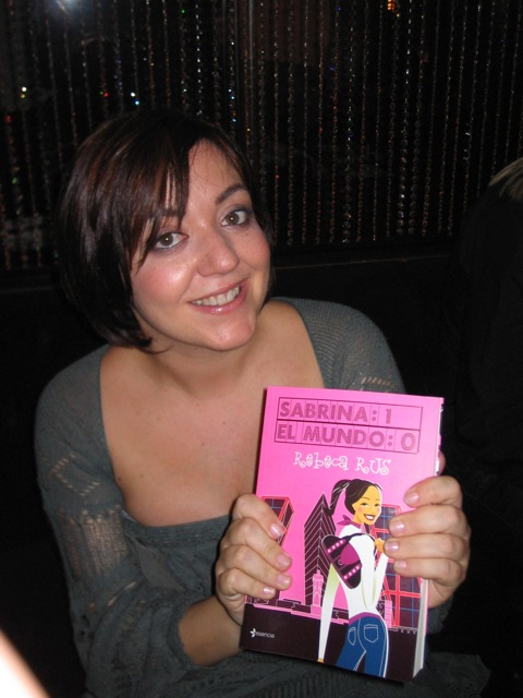 Photo of the Chick-lit's novels author: Rebeca Rus